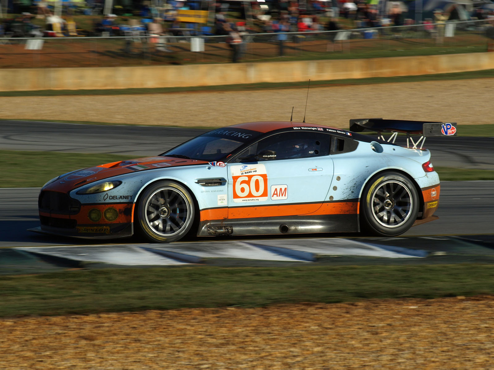 Fabien Giroix driving the Gulf AMR Middle East Aston Martin V8 Vantage GT2 in the 2011 Petit Le Mans at Road Atlanta.